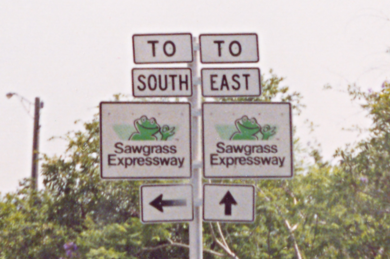 The original road signs pointing to the direction of the Sawgrass Expressway, near the intersection of Atlantic Boulevard and University Drive in the city of Coral Springs, Florida. The signs with the mascot "Cecil B. Sawgrass" were installed in 1986, but replaced within a few years with standard State Toll Road signs, thus few (if any), are still extant today.